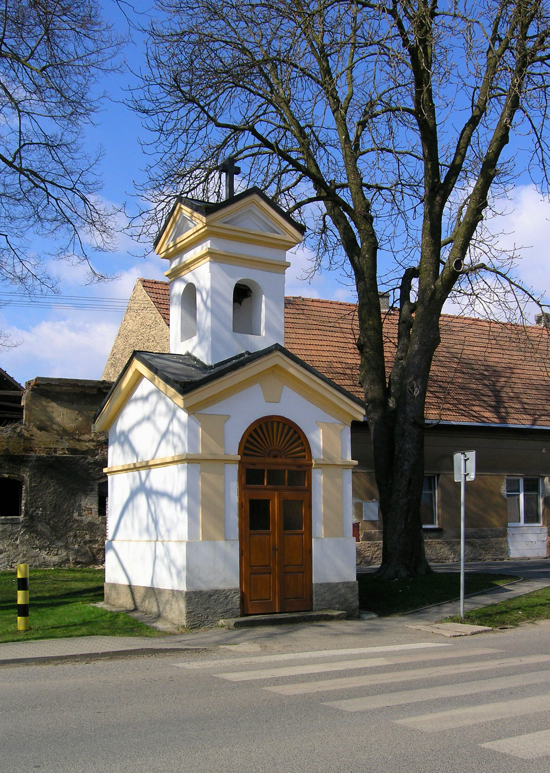 Chapel in Drahelčice, Czech Republic